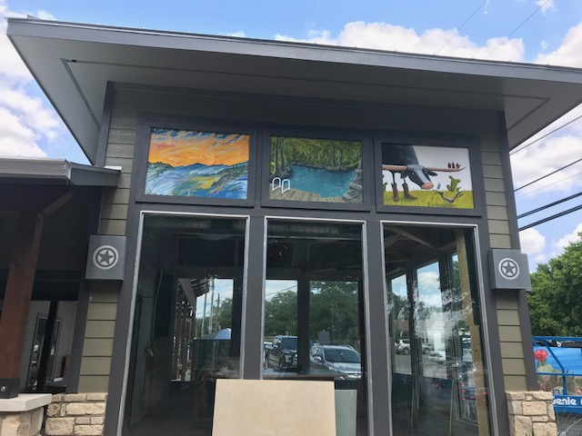 KWVH's Fishbowl Studio features nine panels of art from local artists.